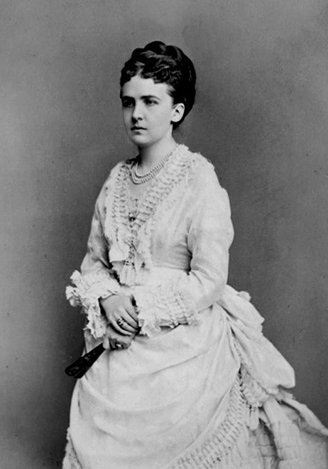 Her Royal Highness Princess Friedrich Karl of Prussia (1837-1906) née Her Serene Highness Princess Marianne of Anhalt-Dessau